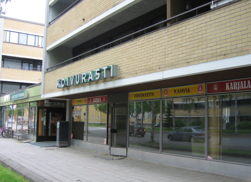 Koivurasti cafe in Joensuu